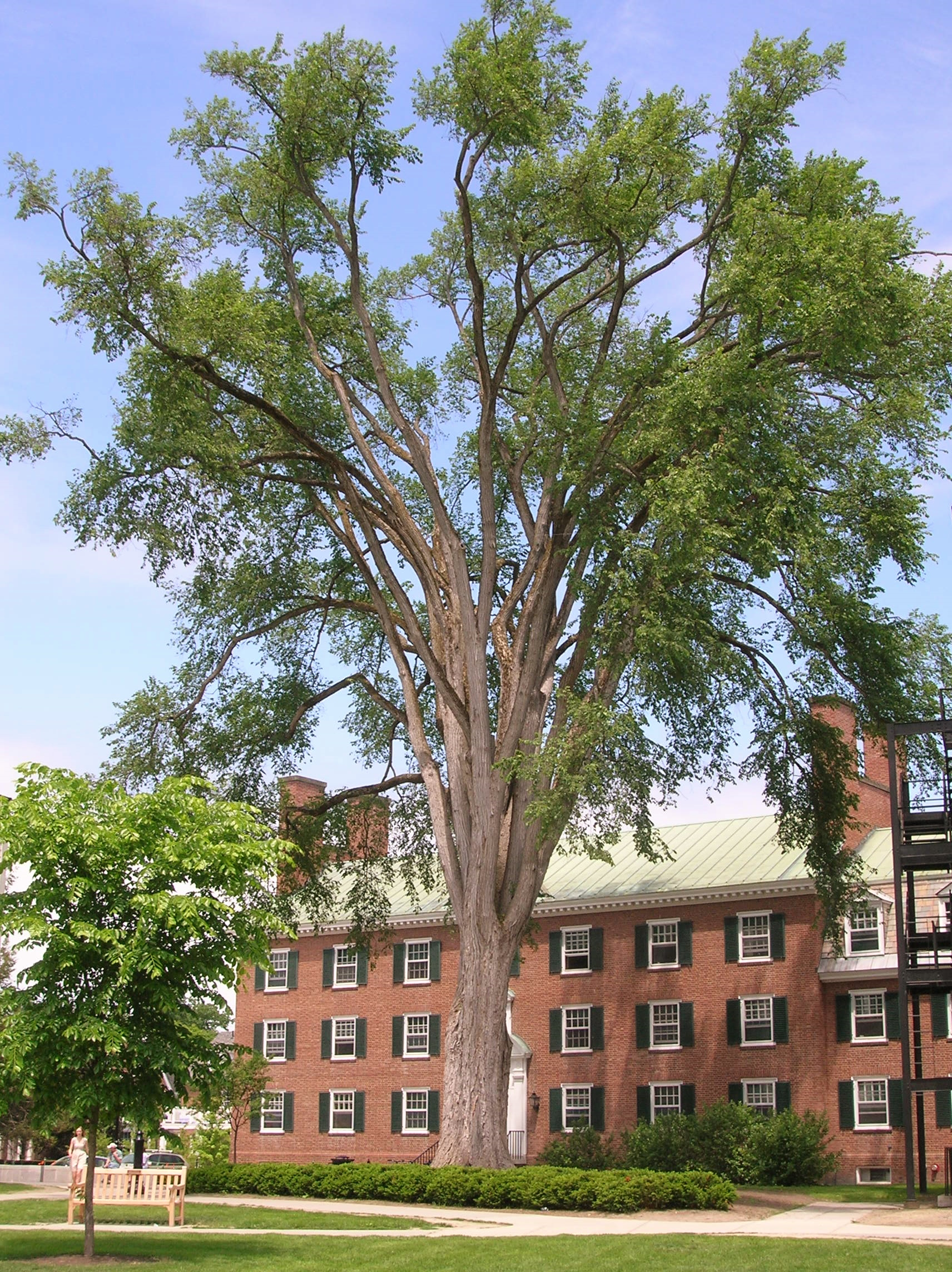 American Elm Tree located between Fahey Hall and Russell Sage building (on Tuck Mall) on the Dartmouth College campus in Hanover, NH.